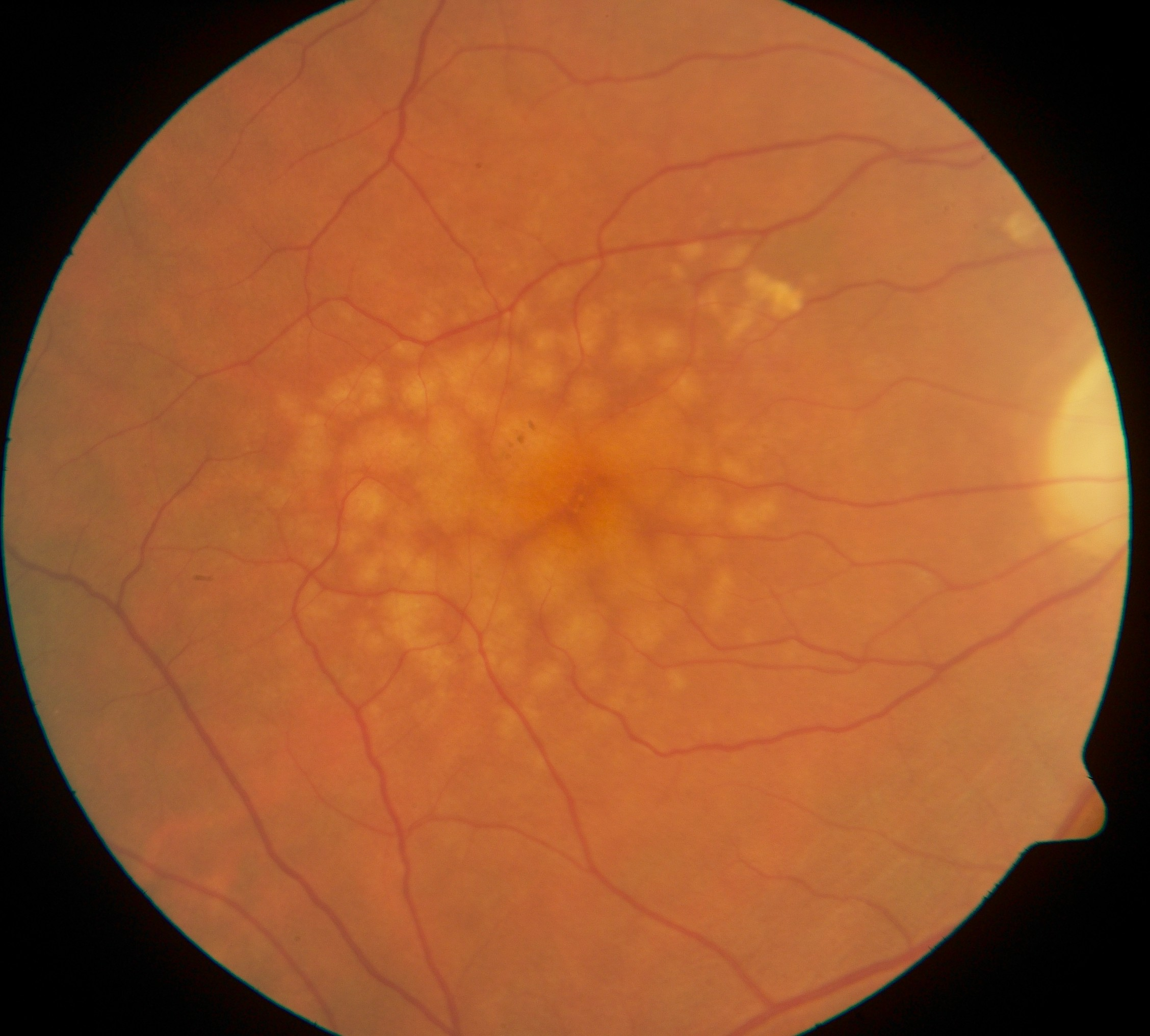 Fundus image of macular soft Drusen in the right eye of a 70 year old male